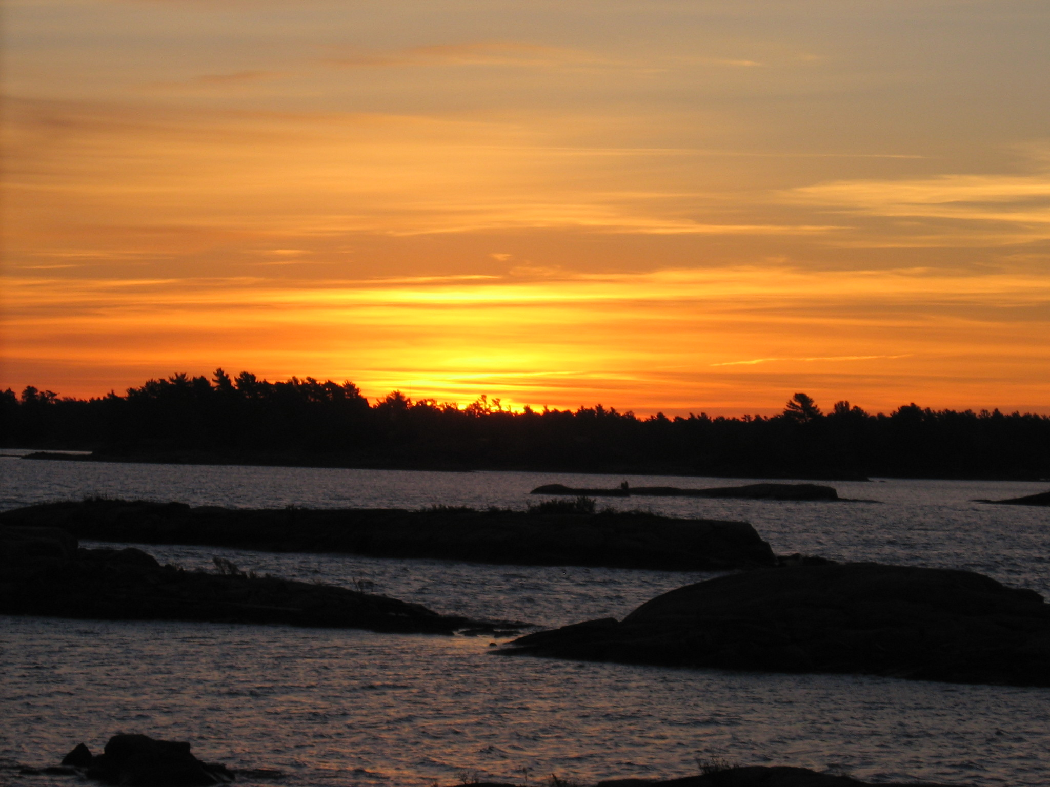 A Pointe Au Baril Sunrise. Photo by Rosemary Tiffin with a Canon PowerShot A510 on October 8th, 2006